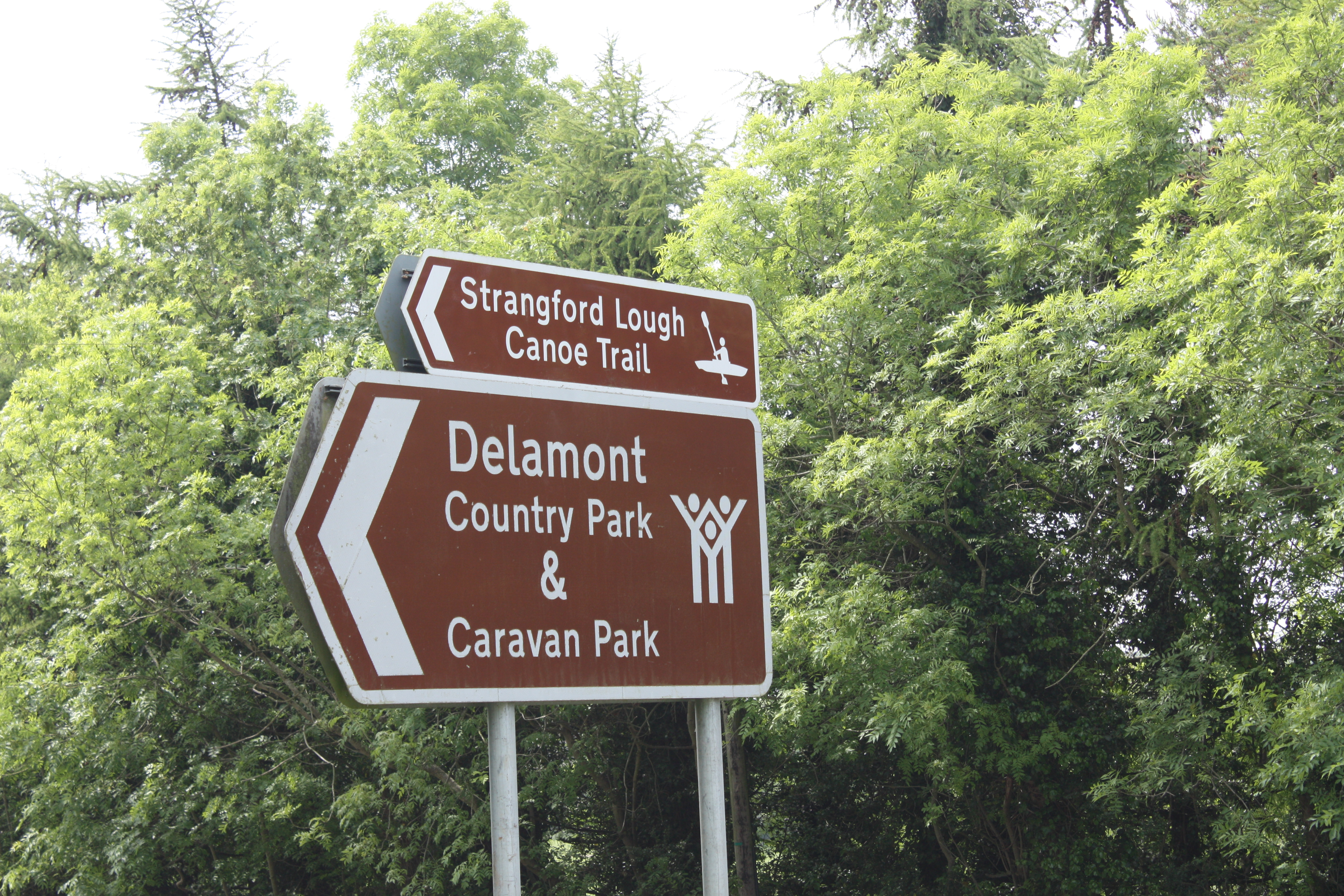 Sign at Delamont Country Park, Killyleagh, County Down, Northern Ireland, June 2012